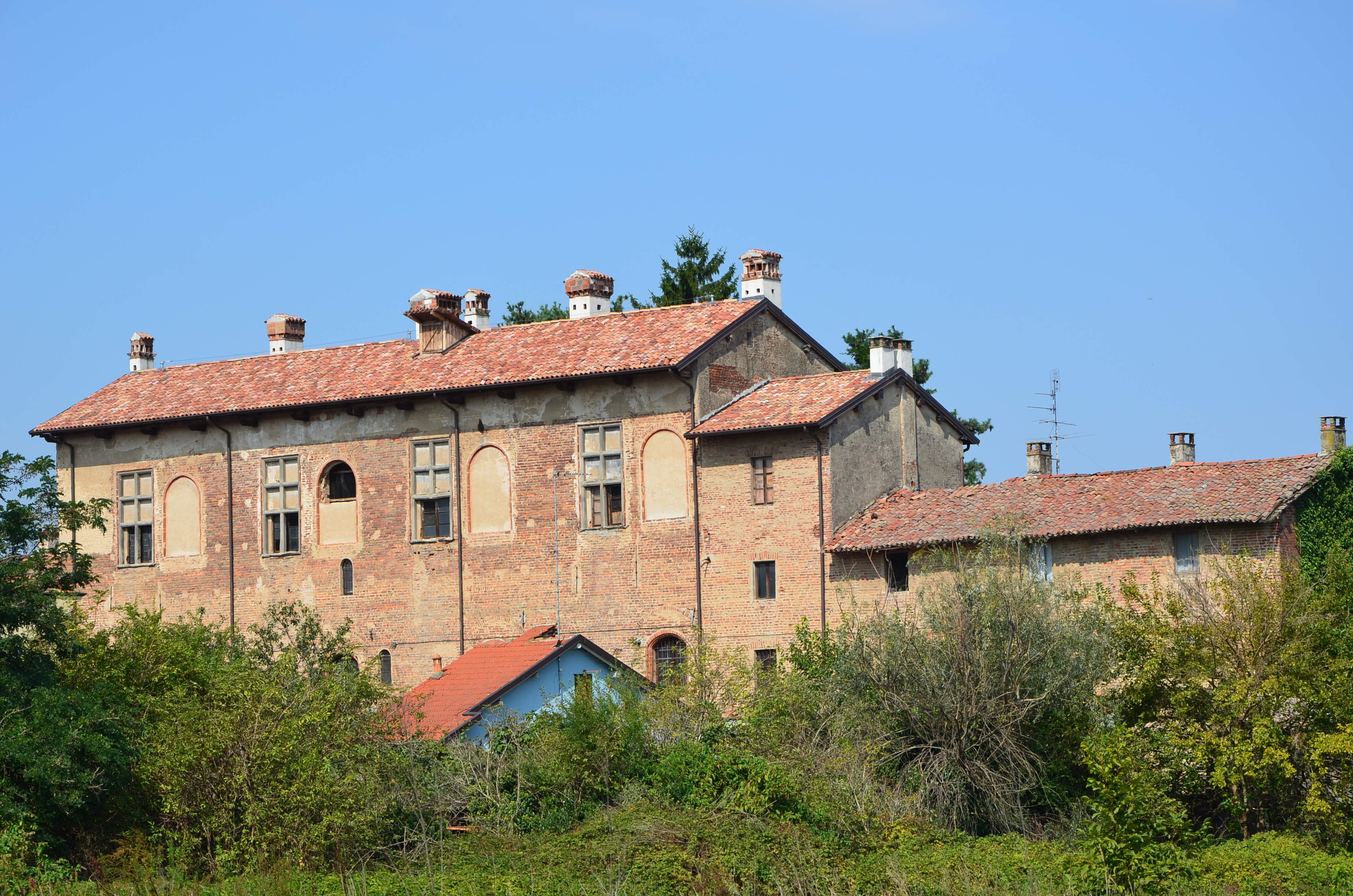 This is a photo of a monument which is part of cultural heritage of Italy.